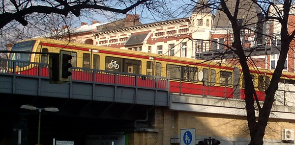 The S-Bahn (public transport) in berlin.